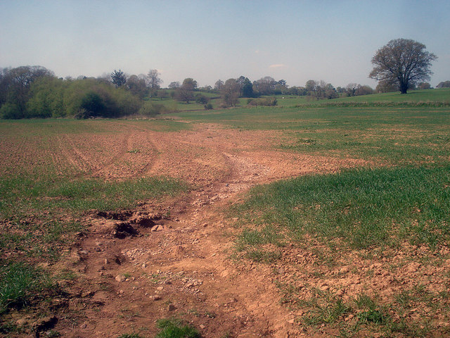 Soil erosion at Hill Farm Looking west at the bottom of a shallow valley which obviously becomes a water course in times of heavy rain. Most of the crop will be fine, but in the lower wetter areas growth is stunted and in the water course there is no growth at all.